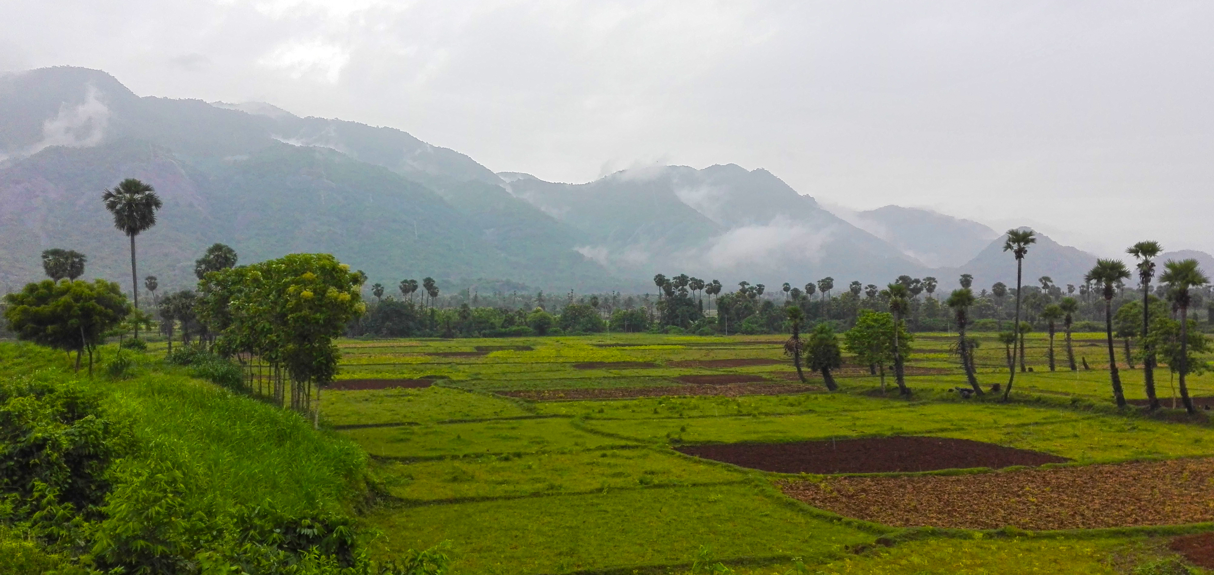 Eastern Ghats view near Sontivanipalem, Vizianagaram district, Andhra Pradesh